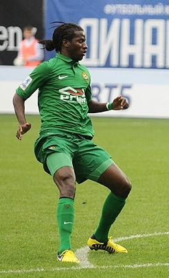 Ibrahima Baldé with FC Kuban Krasnodar in 2012.